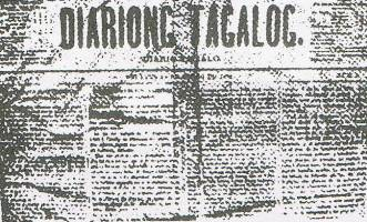 Diariong Tagalog, Jueves, 1 de Enero de 1882.